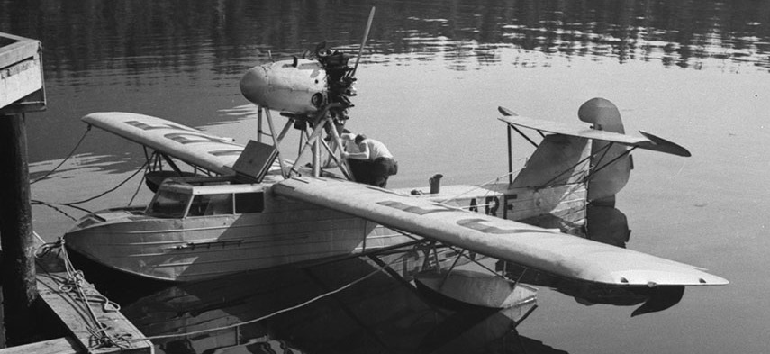 Boeing A-213 Totem flying boat CF-ARF of Mr. W.J. Dyson